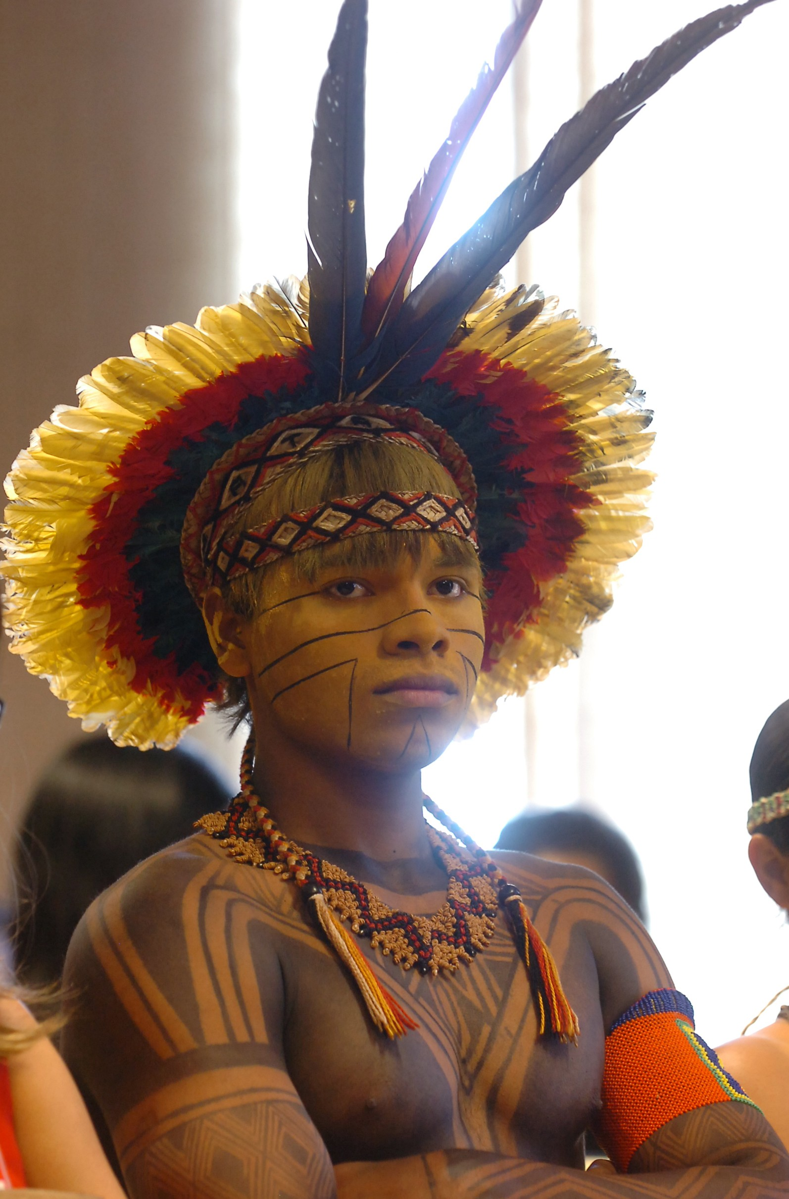 Young pataxó boy